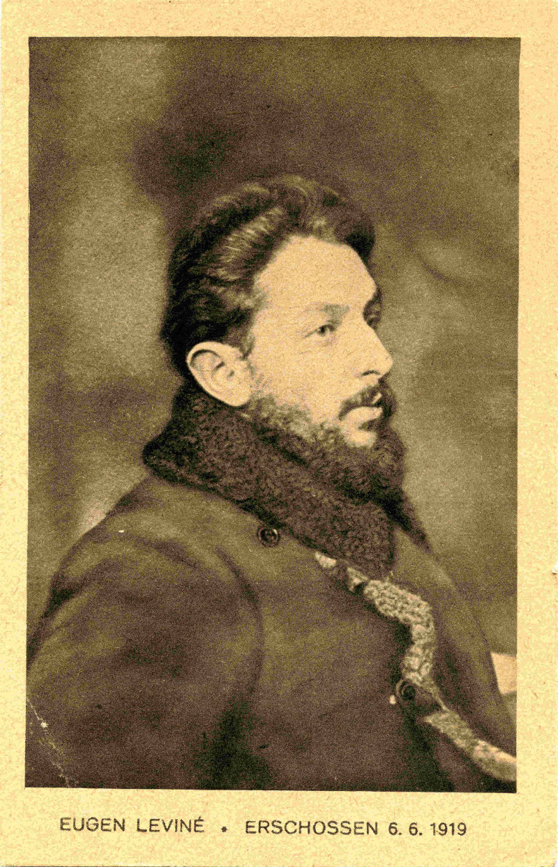 Photo of Eugene Levine (1883-1919), a Communist, revolutionary and leader of the short lived Bavarian Soviet Republic